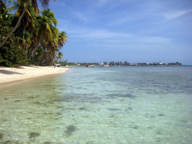 Beach in Tobago